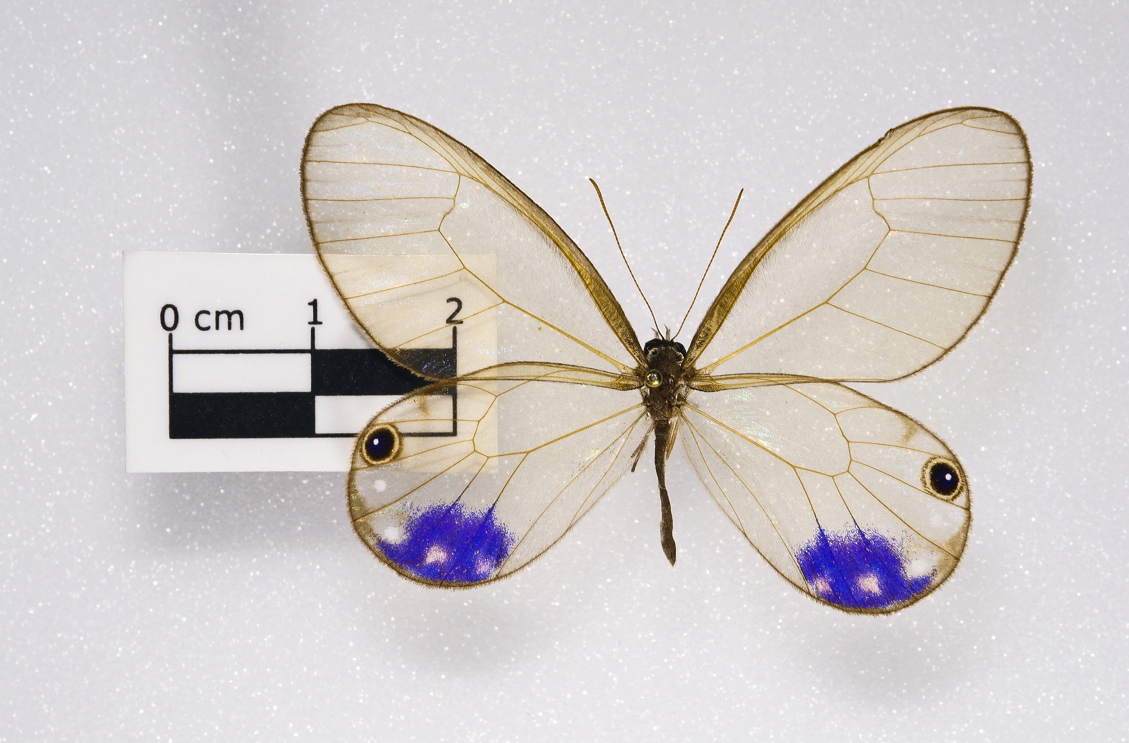 Male specimen Locality: Obidos, Pará, Brasil TL